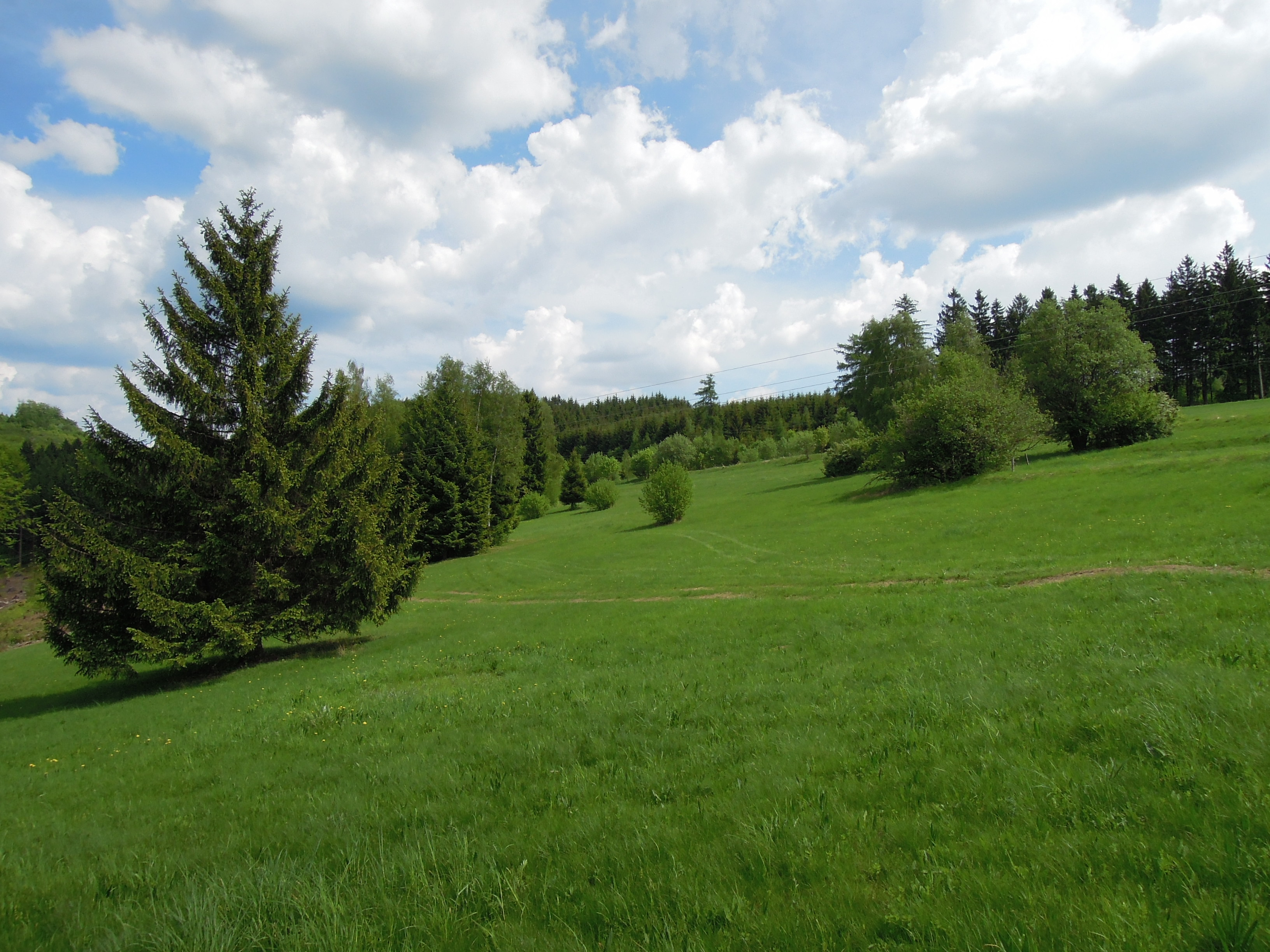 Louky pod Štípou natural monument in Růžďka, Vsetín District, Zlín Region, Czech Republic